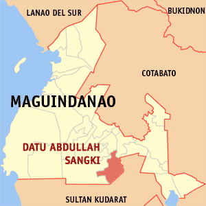 Map of the Maguindanao showing the location of Datu Abdullah Sangki